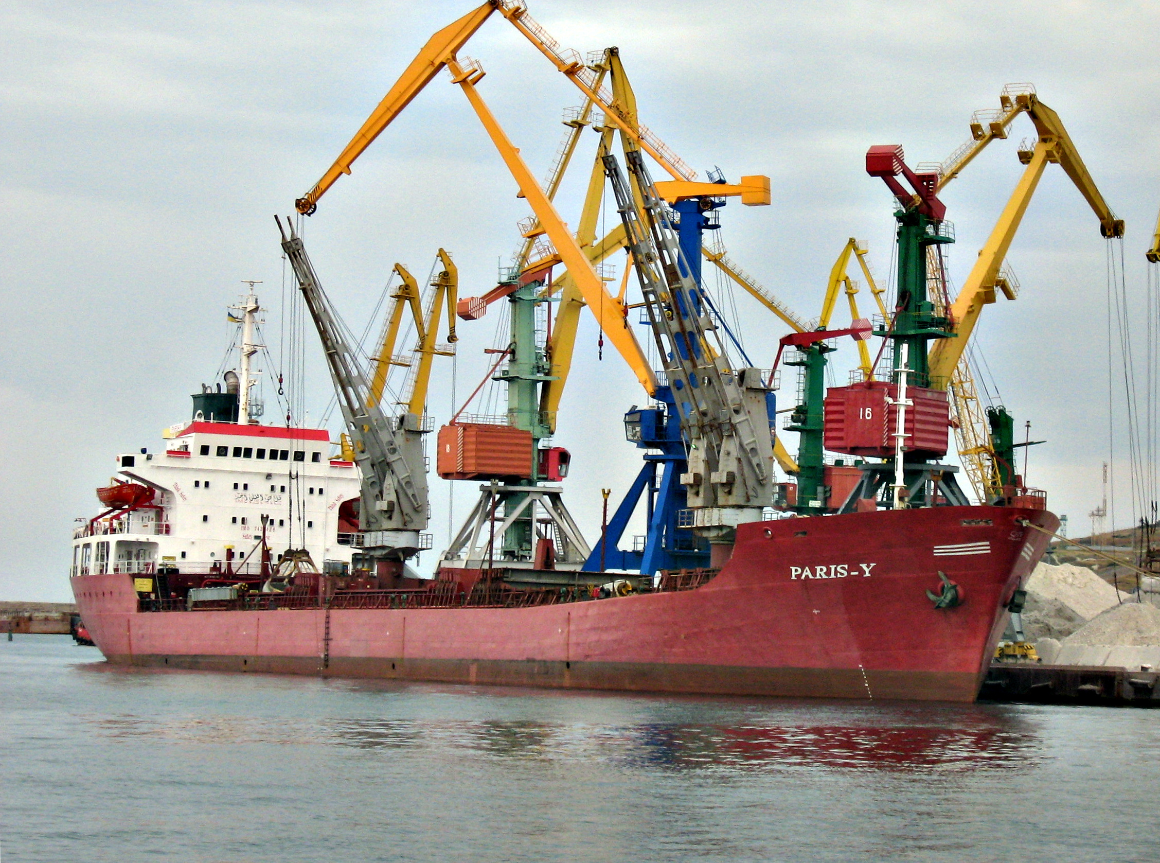 Port_of_Theodosia. Crimea. Ukraine.